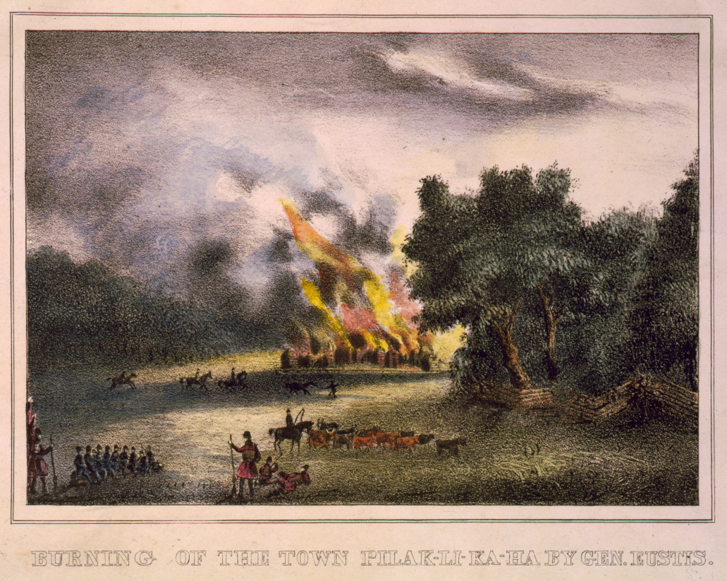 Downloaded from TITLE: Burning of the town Pilak-li-ka-ha by Gen. Eustis CALL NUMBER: PGA - Gray & James--Burning ... (A size) [P&P] REPRODUCTION NUMBER: LC-USZC4-2727 (color film copy transparency) LC-USZ62-22901 (b&w film copy neg.) RIGHTS INFORMATION: No known restrictions on publication. MEDIUM: 1 print : lithograph, hand-colored. CREATED/PUBLISHED: [Charleston, S.C. : T.F. Gray and James, 1837] CREATOR: Gray & James. NOTES: No. 8 in set of 8 "Views of Florida." The State Library and Archives of Florida cites as "Lithographs of events in the Semonole War in Florida in 1835. Issued by T.F. Gray and James of Charleston, S.C., in 1837."